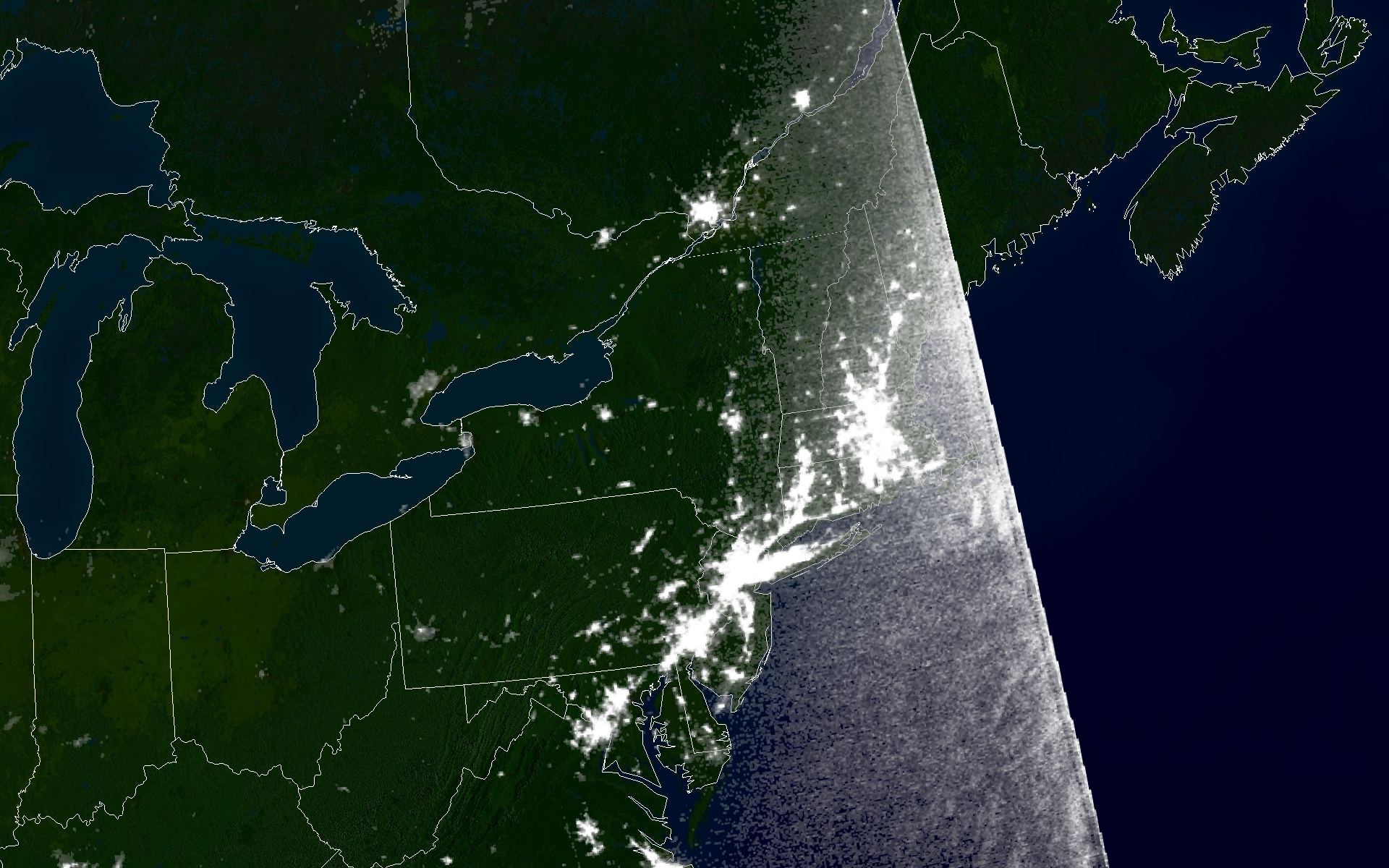 Satellite imagery from the Northeast Blackout of 2003. This image shows light activity from the night before the blackout, August 13, 2003, at 9:21 p.m. EDT (081403-0121z). Imagery data provided by the National Oceanic and Atmospheric Administration and the Defense Meteorological Satellite Program.